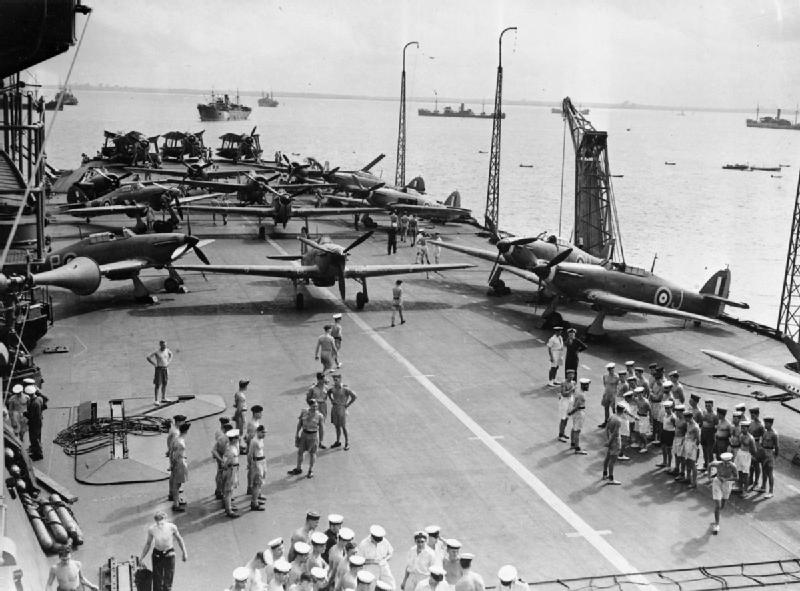 The Royal Navy during the Second World War Hawker Sea Hurricanes and Fairey Albacores on the flight deck of HMS INDOMITABLE during a Malta convoy. Note the radio masts in the upright position and the crane on the edge of the deck. A group of sailors are lined up in the foreground.